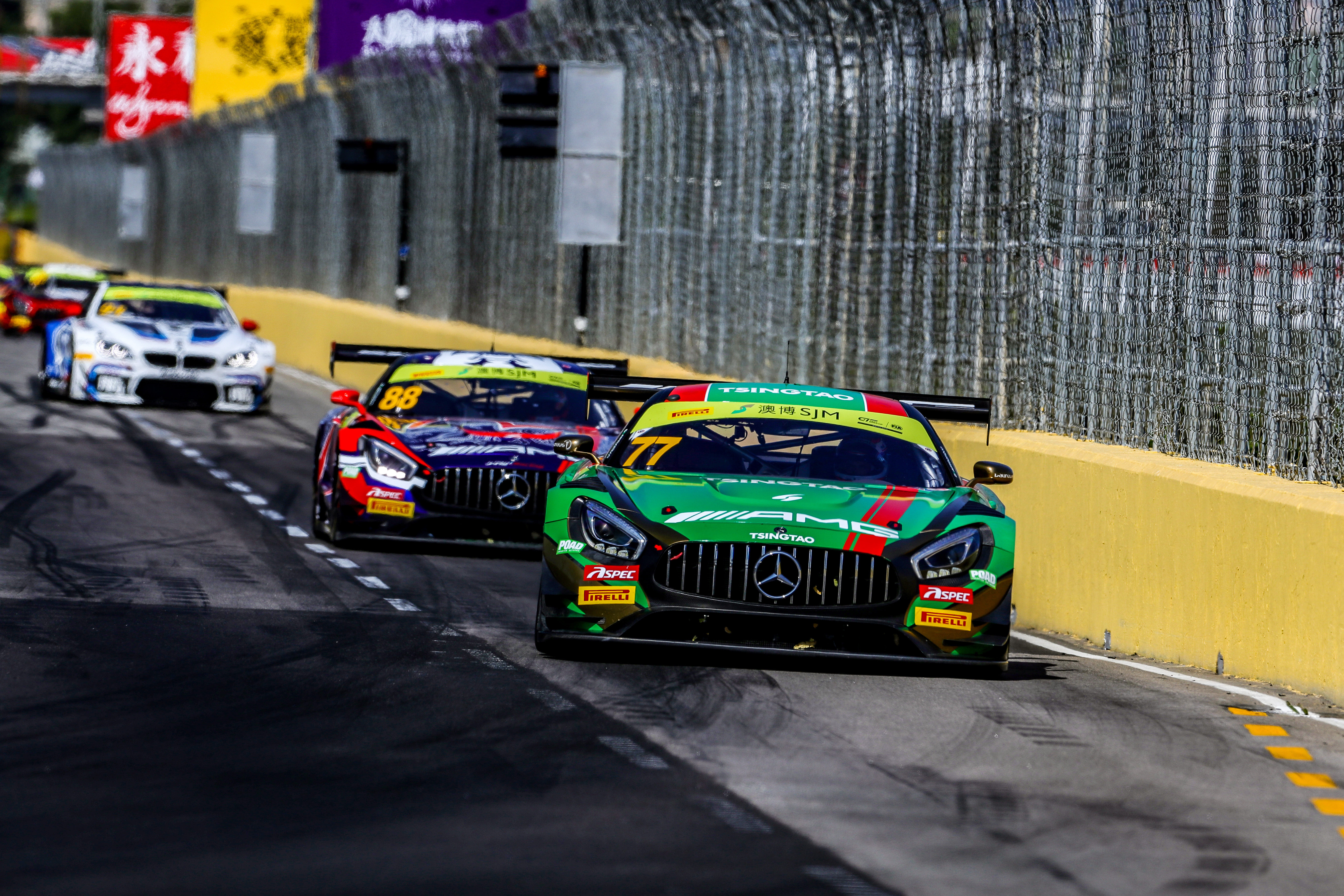 77 & #88 at 2019 FIA GT World Cup. Qualifying Session